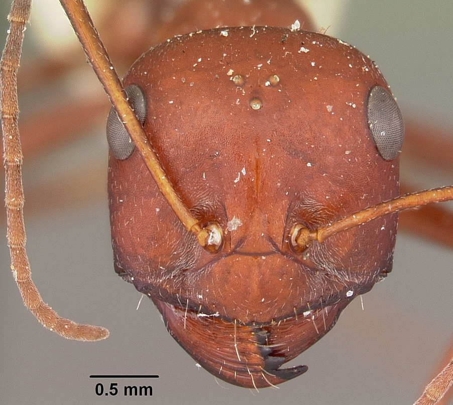 Head view of ant Cataglyphis bicolor specimen casent0104612.